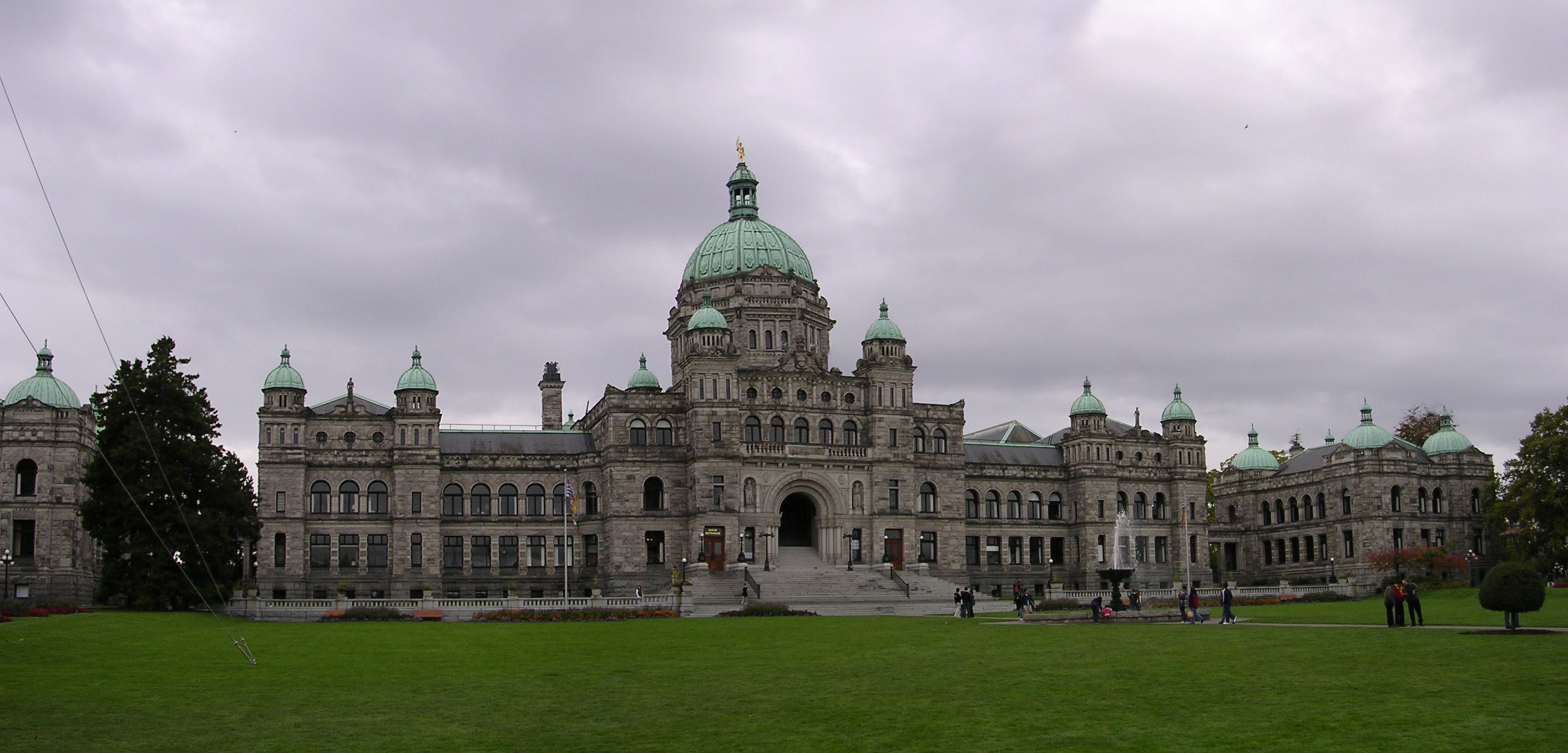 The parliment building in Victoria, British Columbia. The image is made from two photographs stitched together.